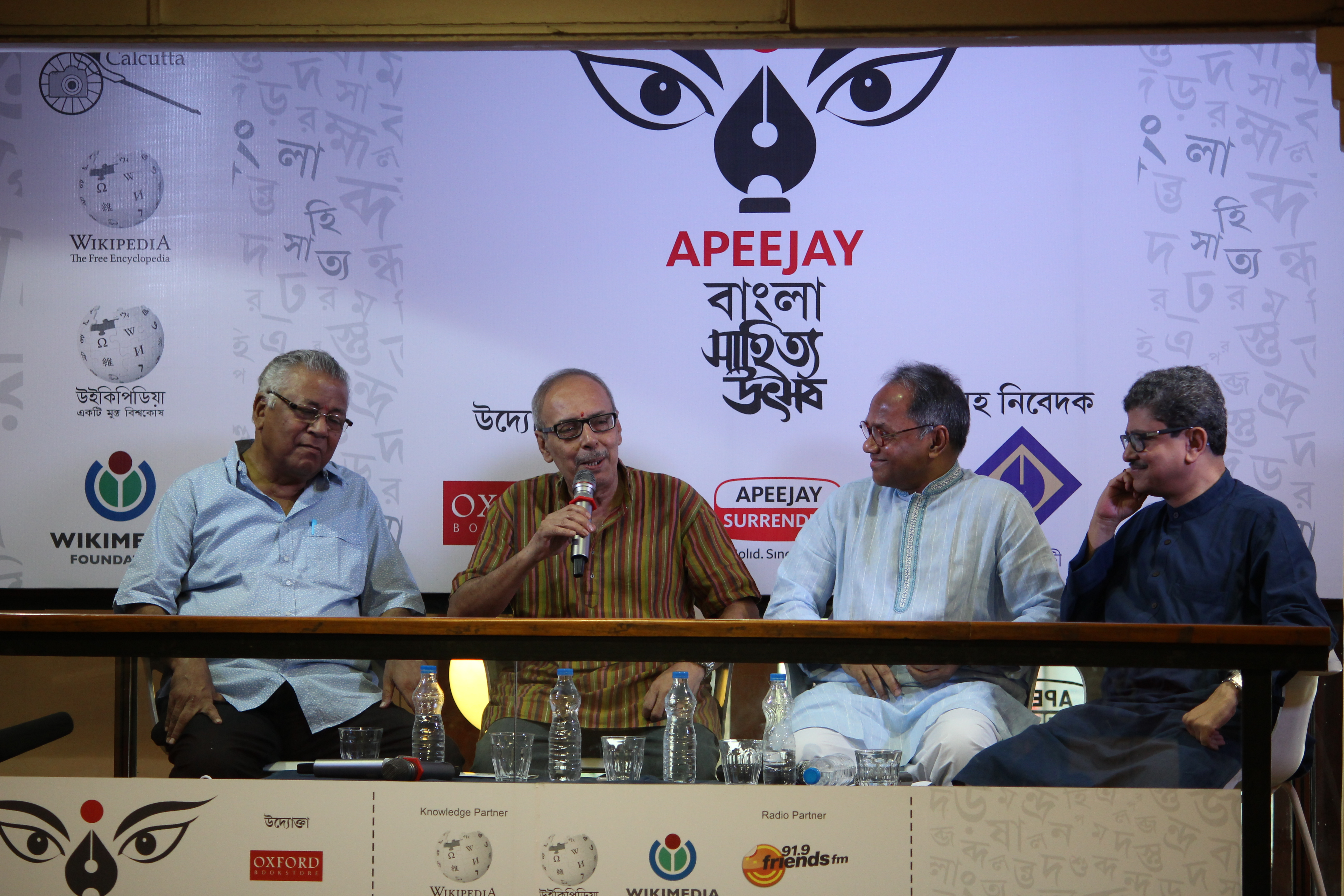 Apeejay Bangla Sahitya Utsob 2015 Inauguration Session